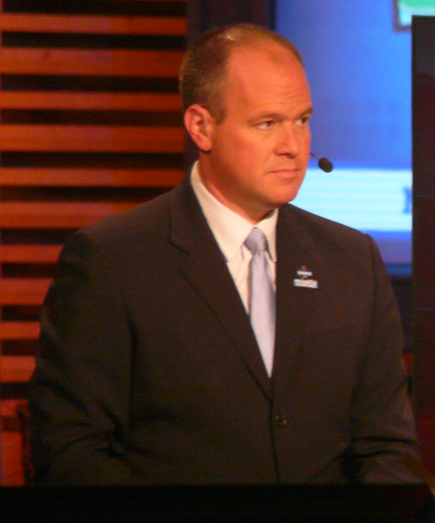 Rich Eisen at the 2011 NFL Draft. This file has been extracted from another file: Rich Eisen and Marshall Faulk.jpg